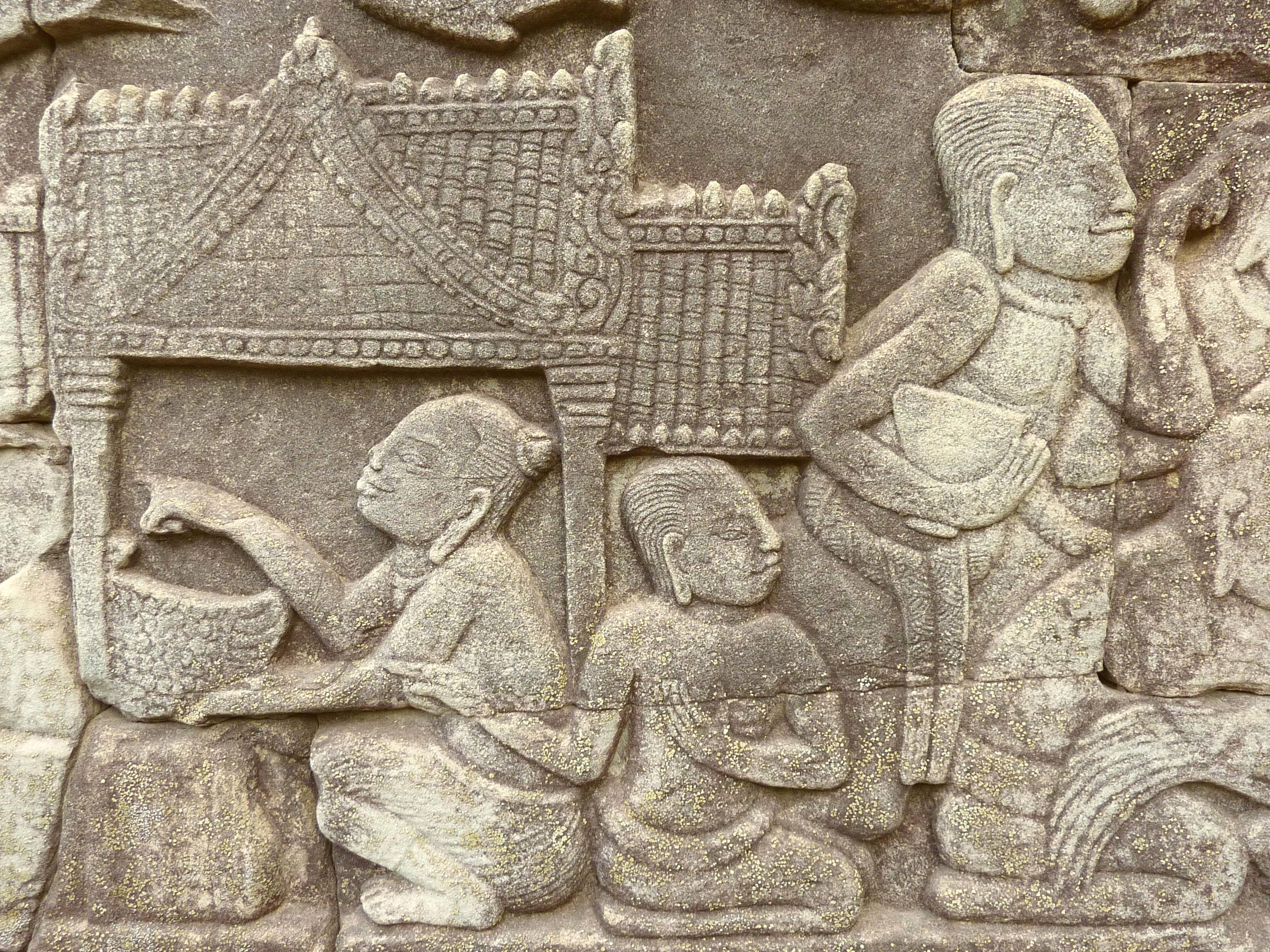 052 At Home at Bayon Photograph from the Bayon Temple at Angkor in Cambodia taken by Anandajoti.